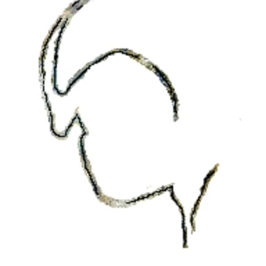 Arcy-sur-Cure, Grande grotte, salle des Vagues - profile of ibex, first painting discovered in 1990.